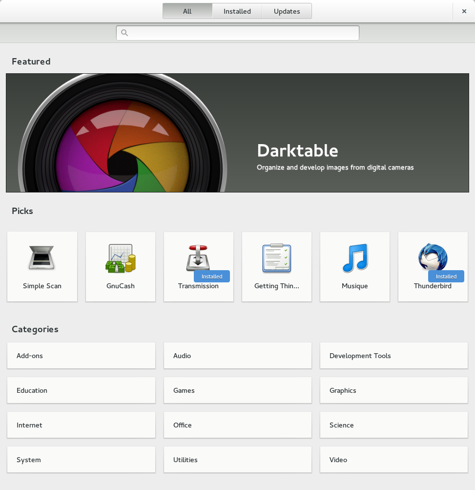 Screenshot of a GNOME Core Application